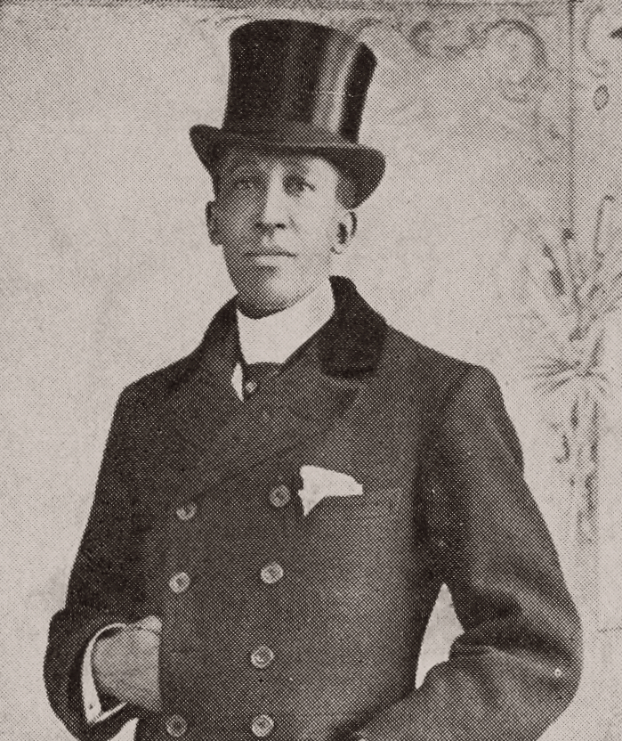 Photo portrait (detail) of musician Sam Lucas, published in 1901 sheet music for "I can stand for your color but your hair won't do".